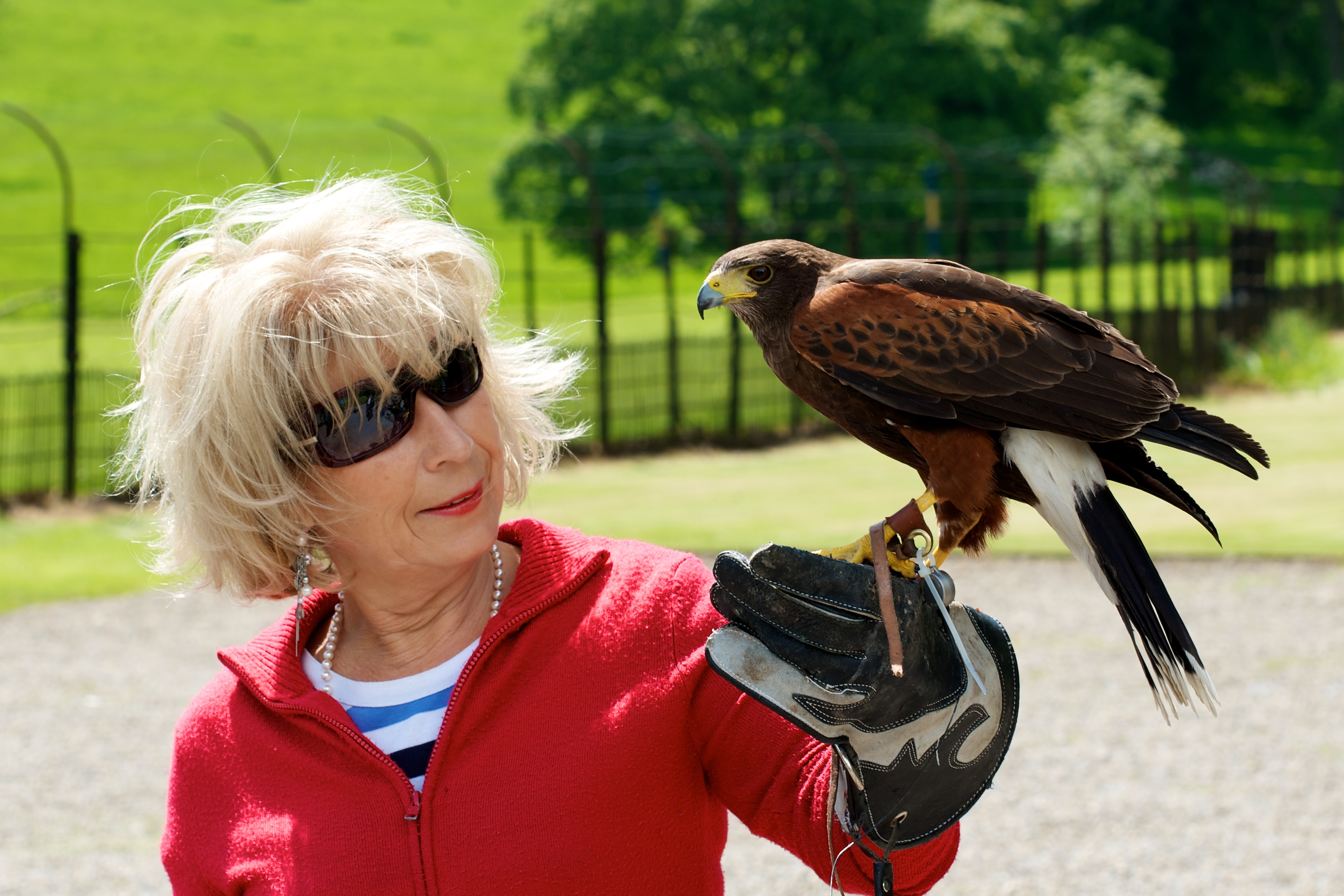 Jennie Bond with a Harris Hawk in Swinton Park.